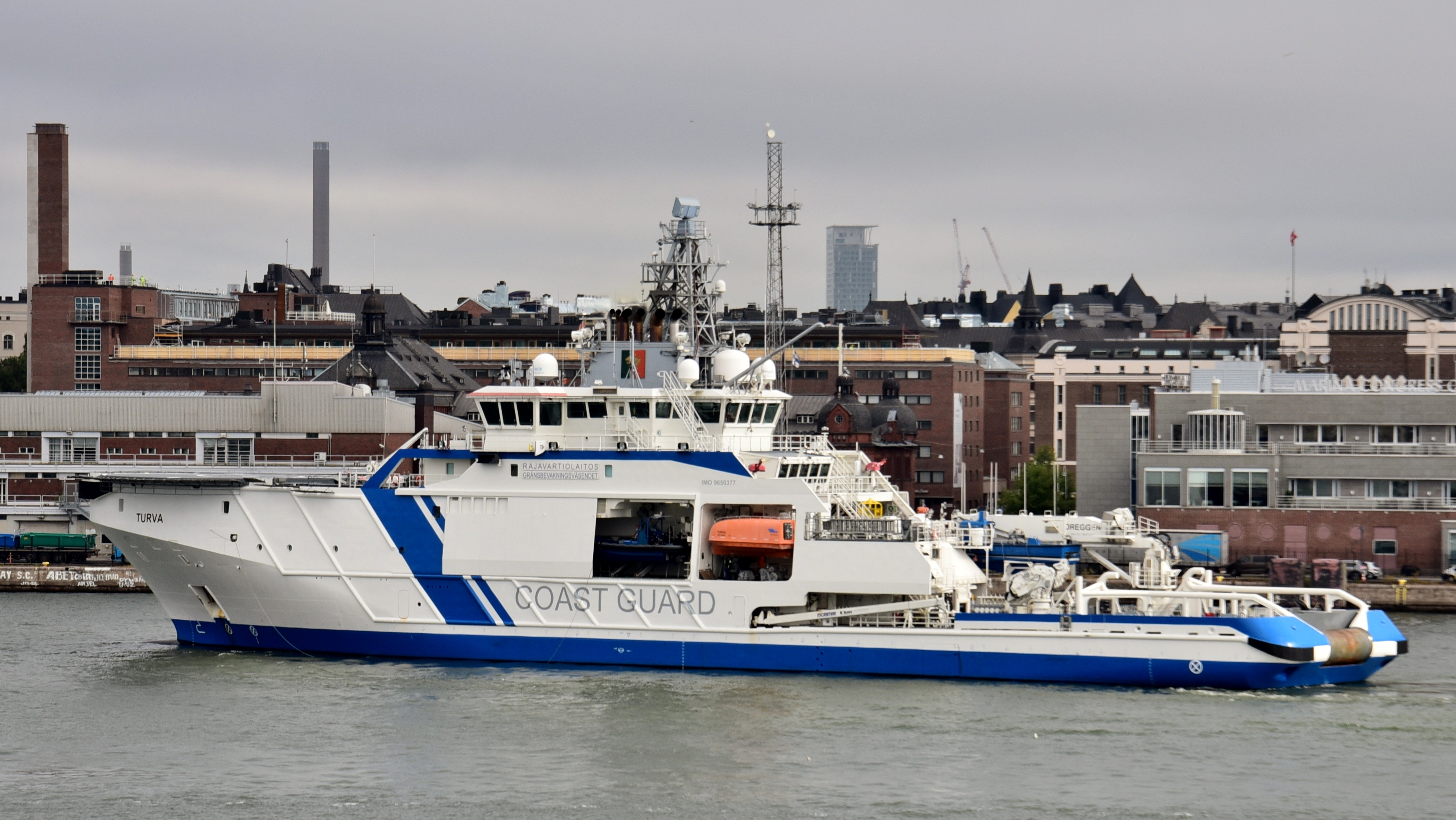 The offshore patrol vessel Turva arriving at South Harbour, Helsinki